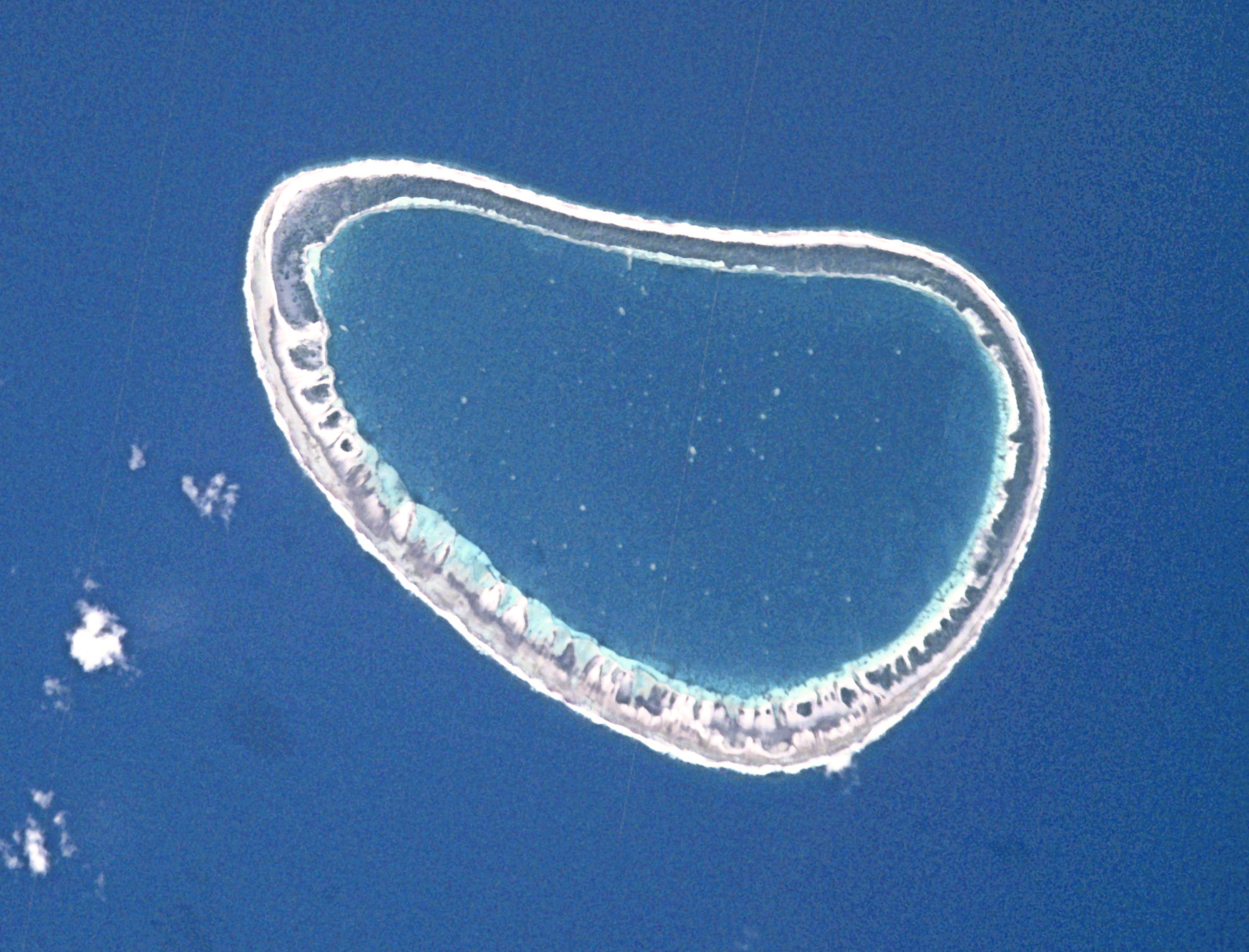 Atoll Paraoa (Tuamotu Archipelago, French Polynesia), from space.